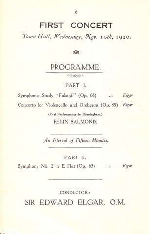 Programme for the first formal concert of the City of Birmingham Orchestra (later City of Birmingham Symphony Orchestra (CBSO)), performed on 10 November 1920, under Edward Elgar, at Birmingham Town Hall.